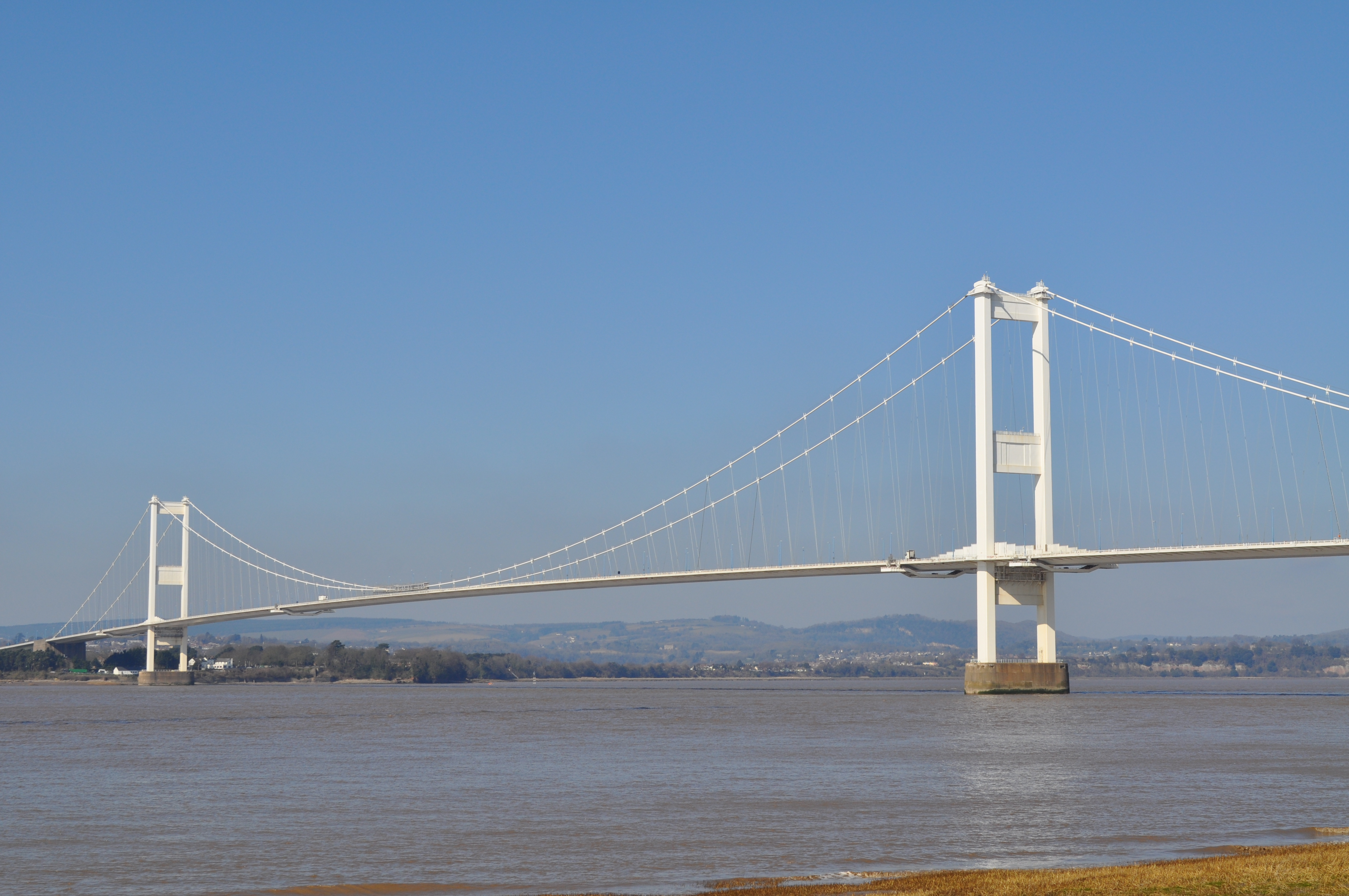 Severn Bridge (M48) full view